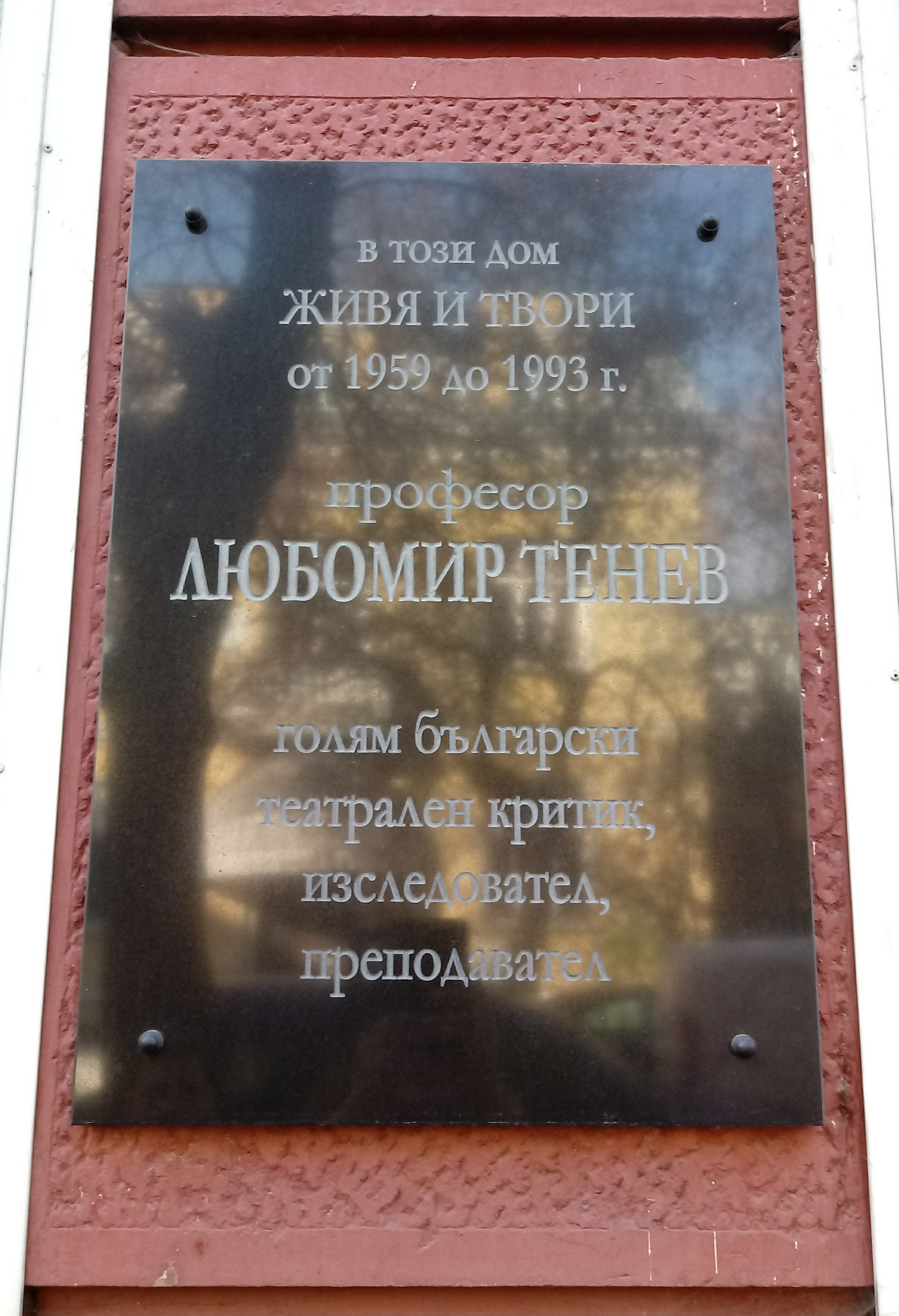 Lyubomir Tenev memorial plaque, Oborishte Str., Sofia